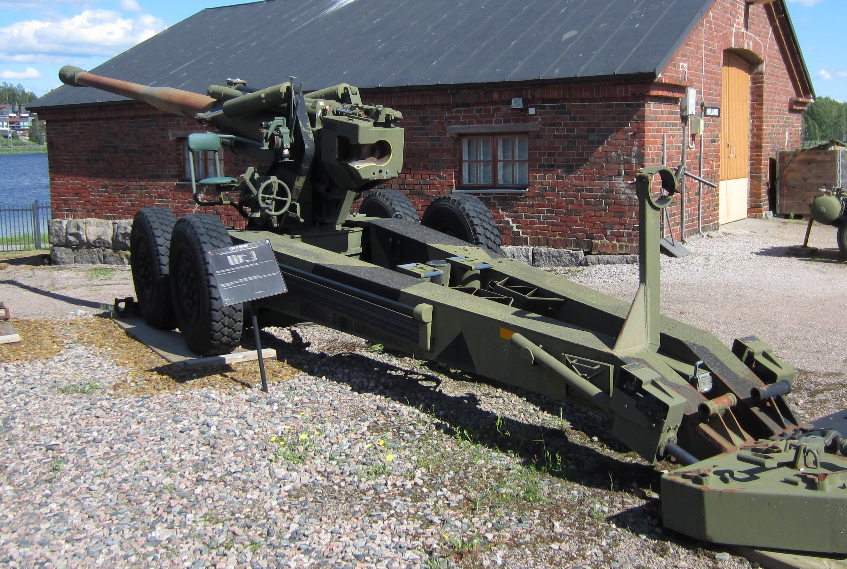 A former Finnish Defence Forces 130 K 90-60 artillery piece, which was made by rebarreling the 122 K 60 pieces with a 130 mm barrel. The pieces were meant for coastal artillery use, and used the same ammunition as the 130 K 54 (130 mm M-46).